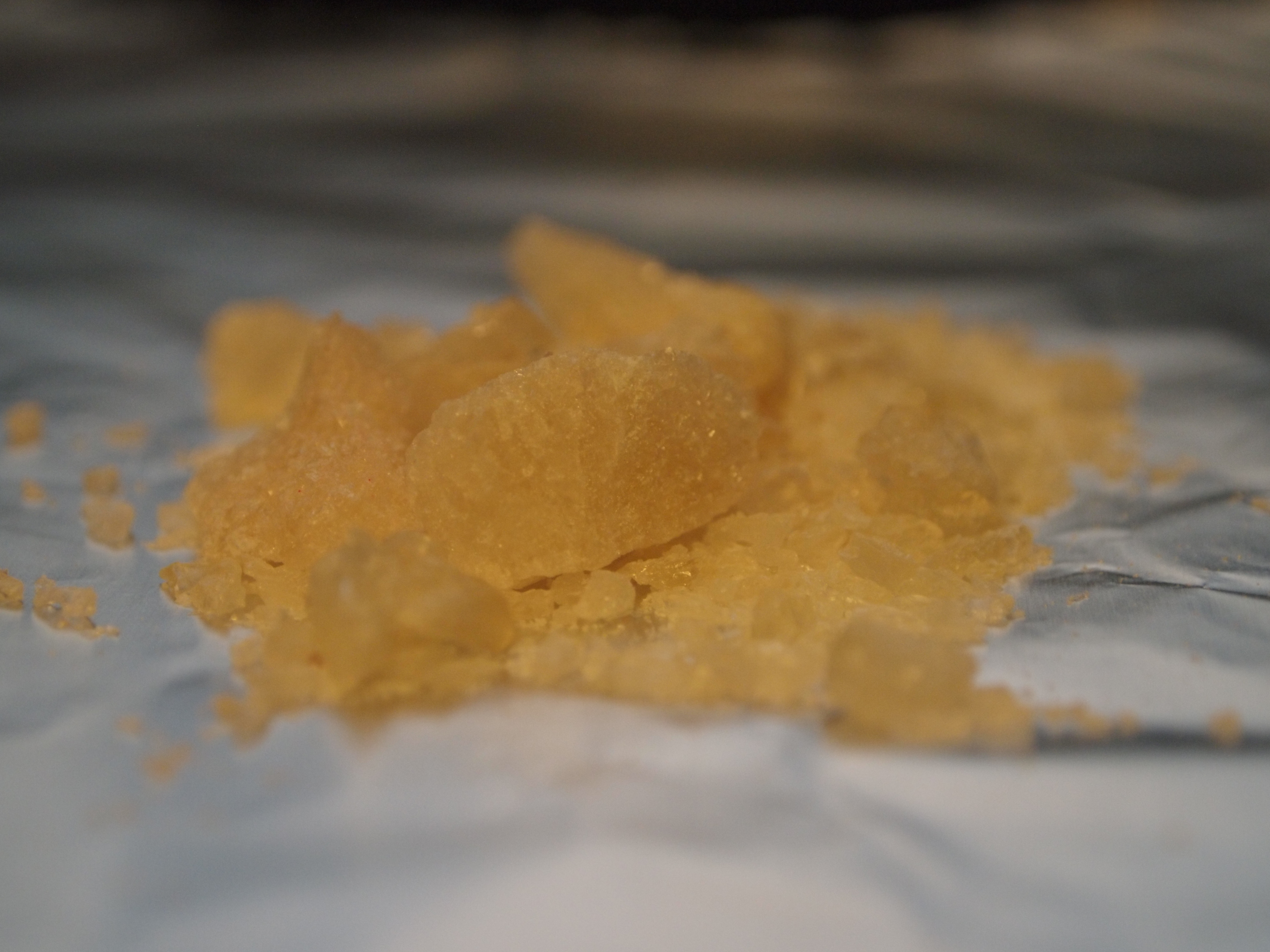 A close up of tan crystals of MDMA on a foil sheet, taken with a very shallow focus.